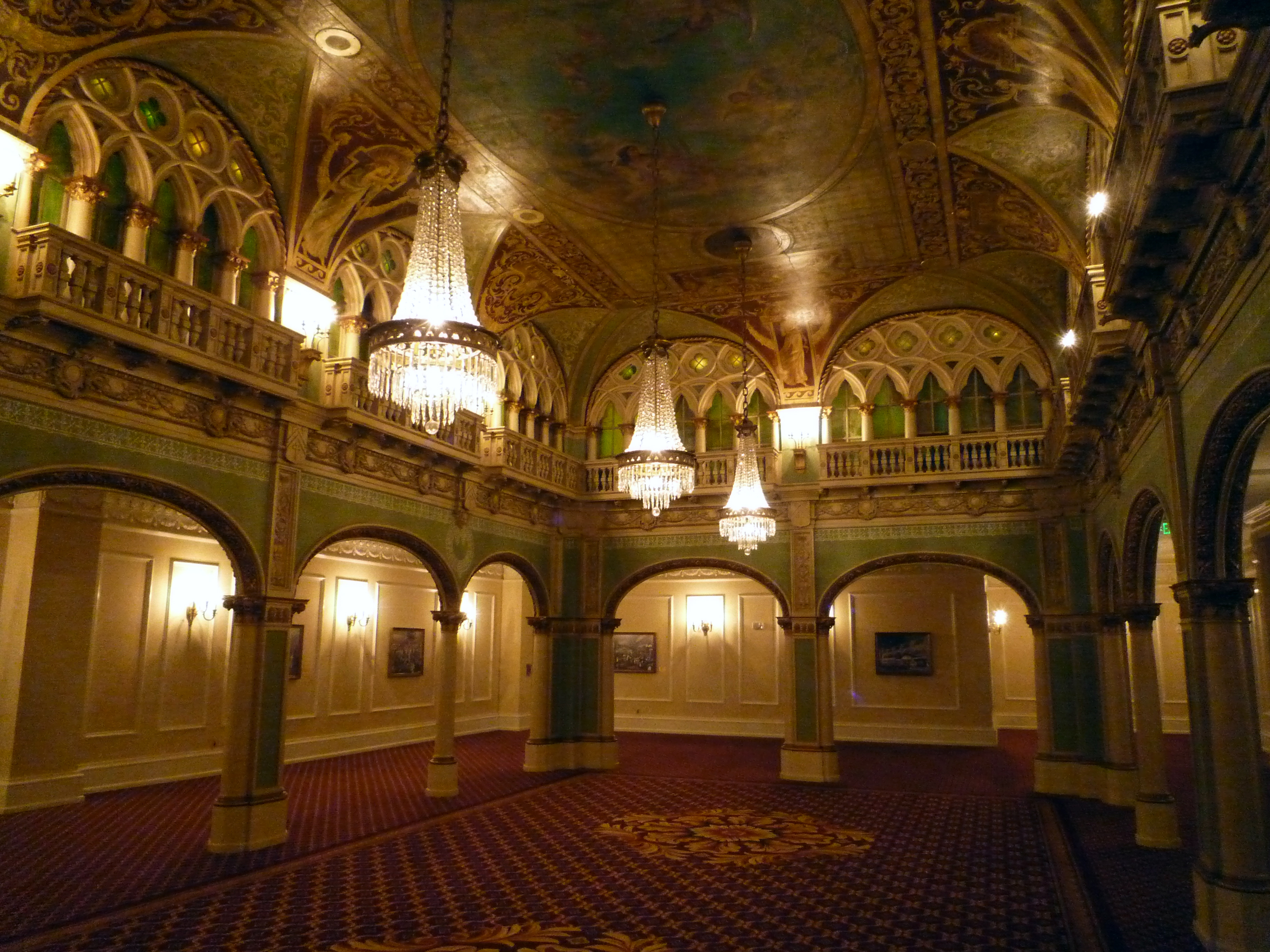 Hall of the Doges, part of the Davenport Hotel, in Spokane, Washington.